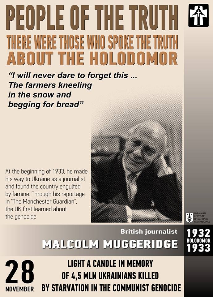 People of truth. There were those who spoke the truth about Holodomor. For the world to know.